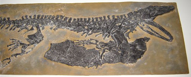 Skeleton of Sclerocephalus (Actinodon) from the Rhinopolis in Gannat (France).